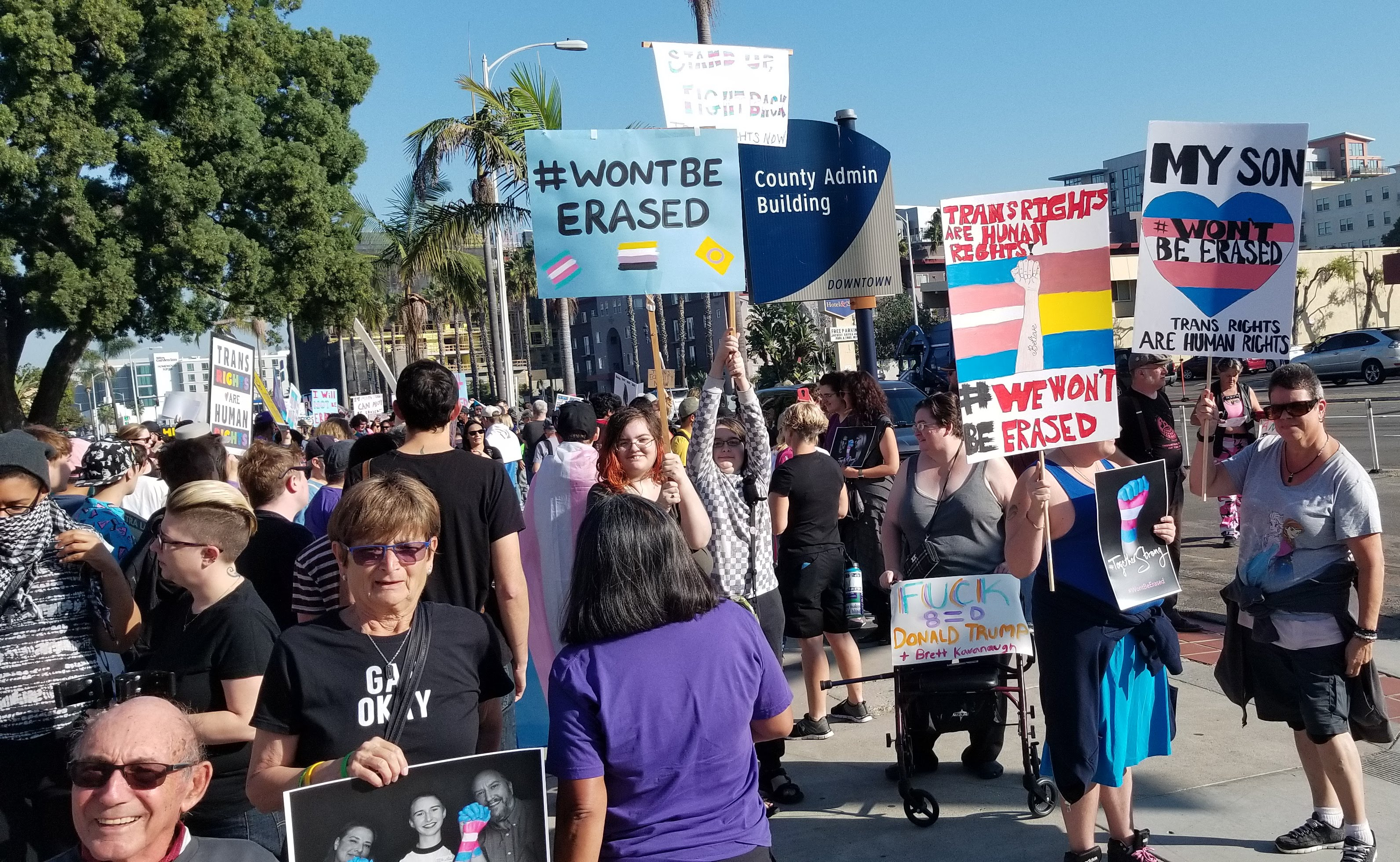 Protesters in downtown San Diego, California march in opposition to the Trump administration's policies on transgender rights